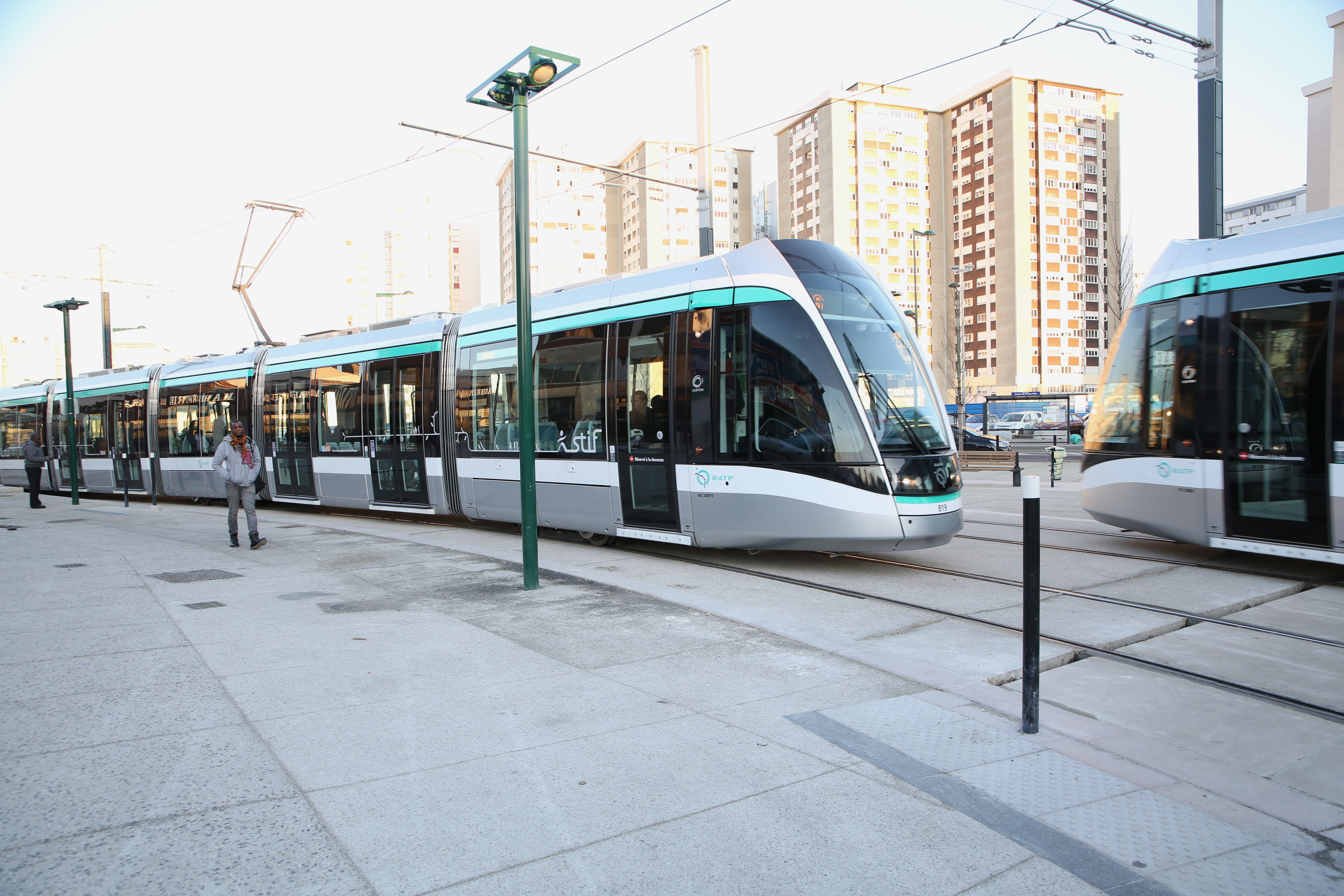 Station Gilbert Bonnemaison